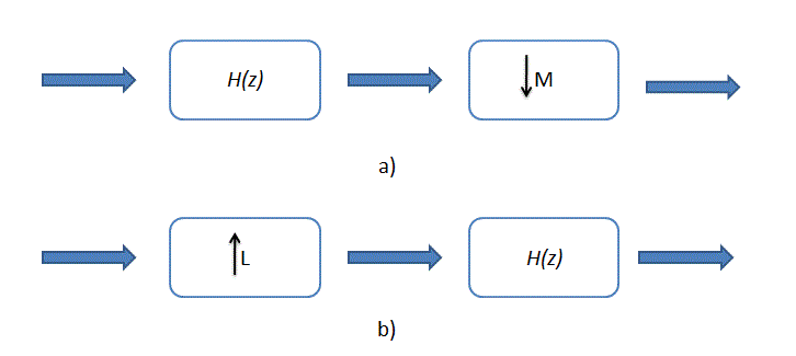 Figure5giff